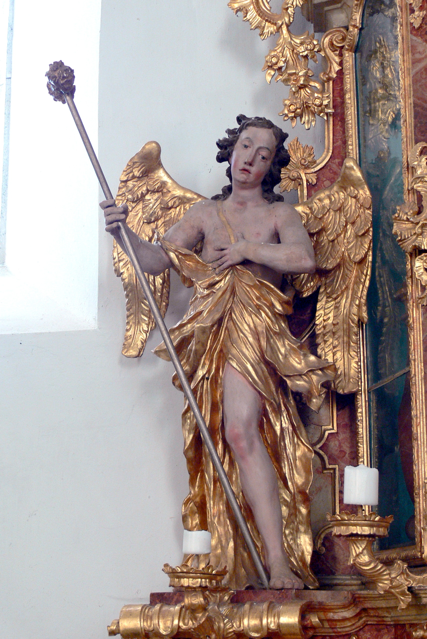 Auberg ( Upper Austria ). Saint George church in Hollerberg: Shrine of Christ at the pillar of Scourging ( 18th century ) - angel with the Holy Sponge.